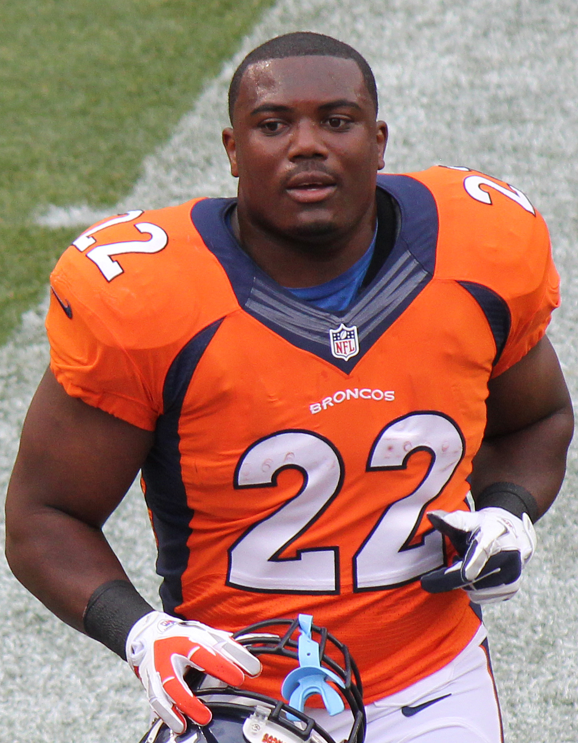 C. J. Anderson, a player on the National Football League.